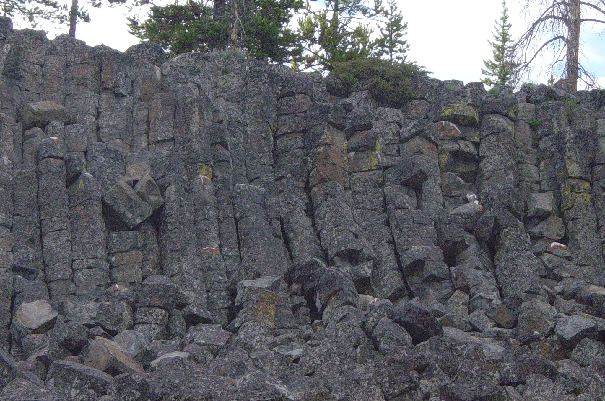 Columnar basalt at Sheepeater Cliff in Yellowstone area